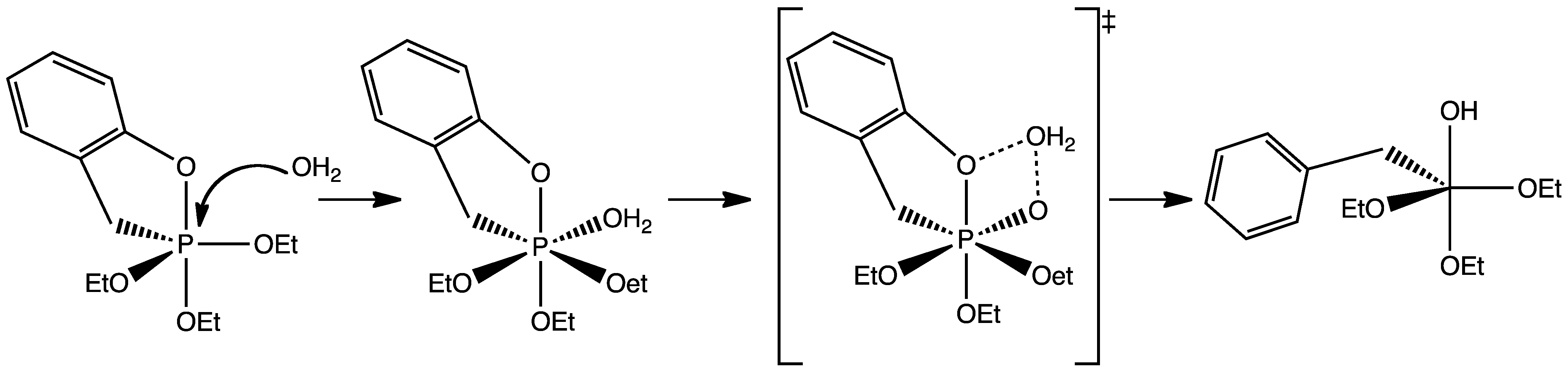 Ring opening hydrolysis of pentacoordinated phosphorous